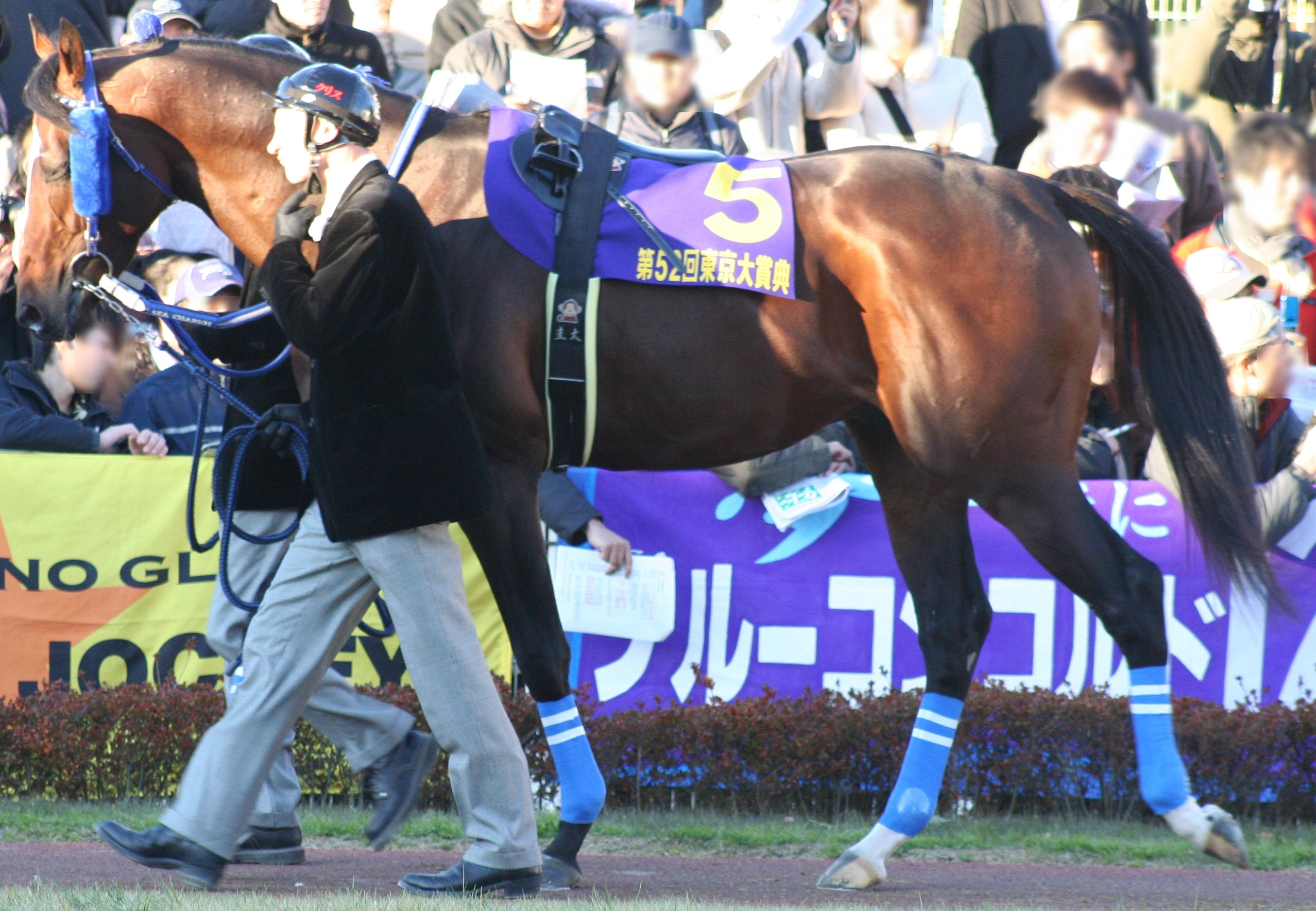 Sea Cariotto (Horse)